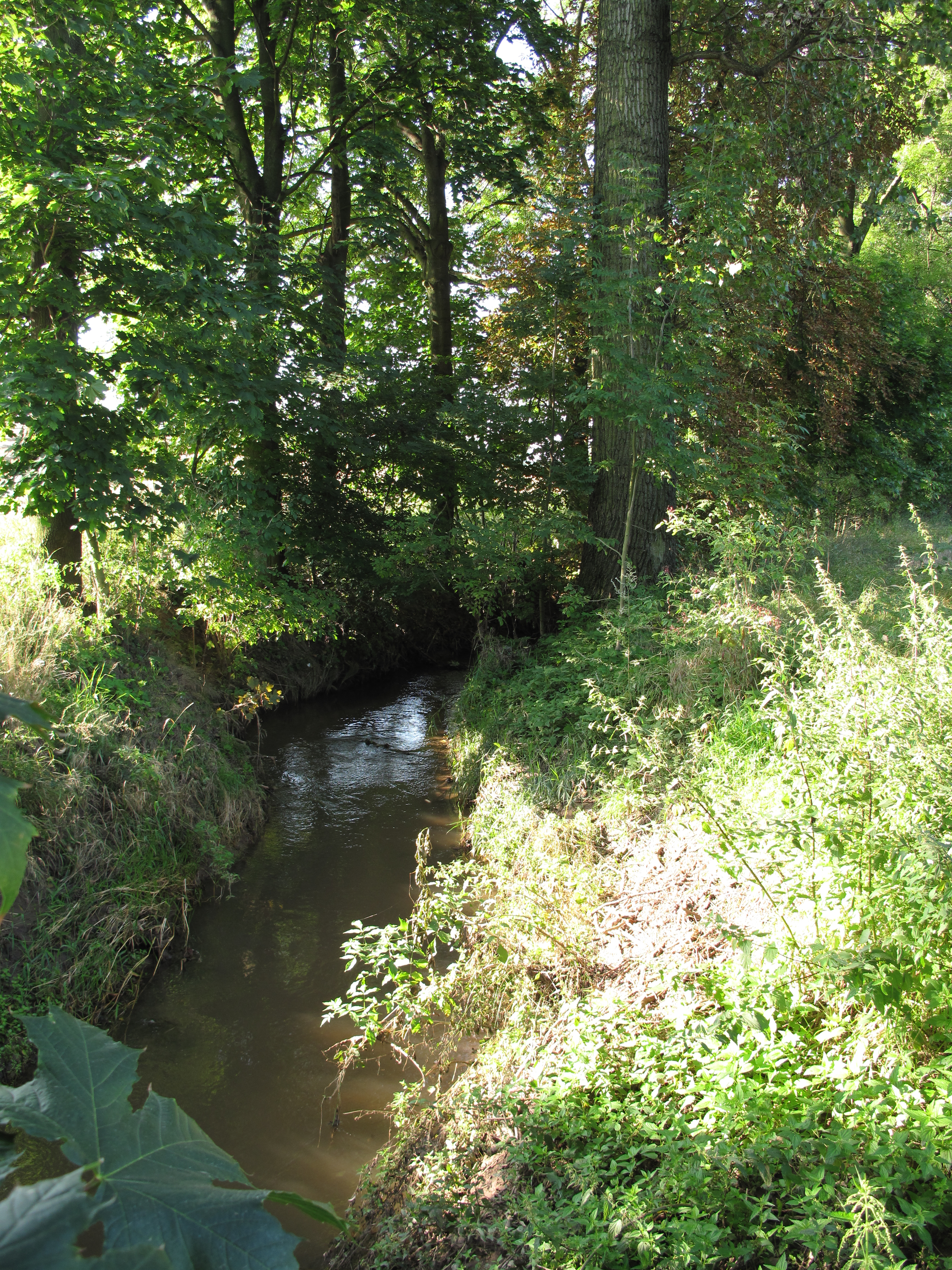 Bylanka Stream northern from Bylany village (Chráštany municipality), Kolín District, Czech Republic.